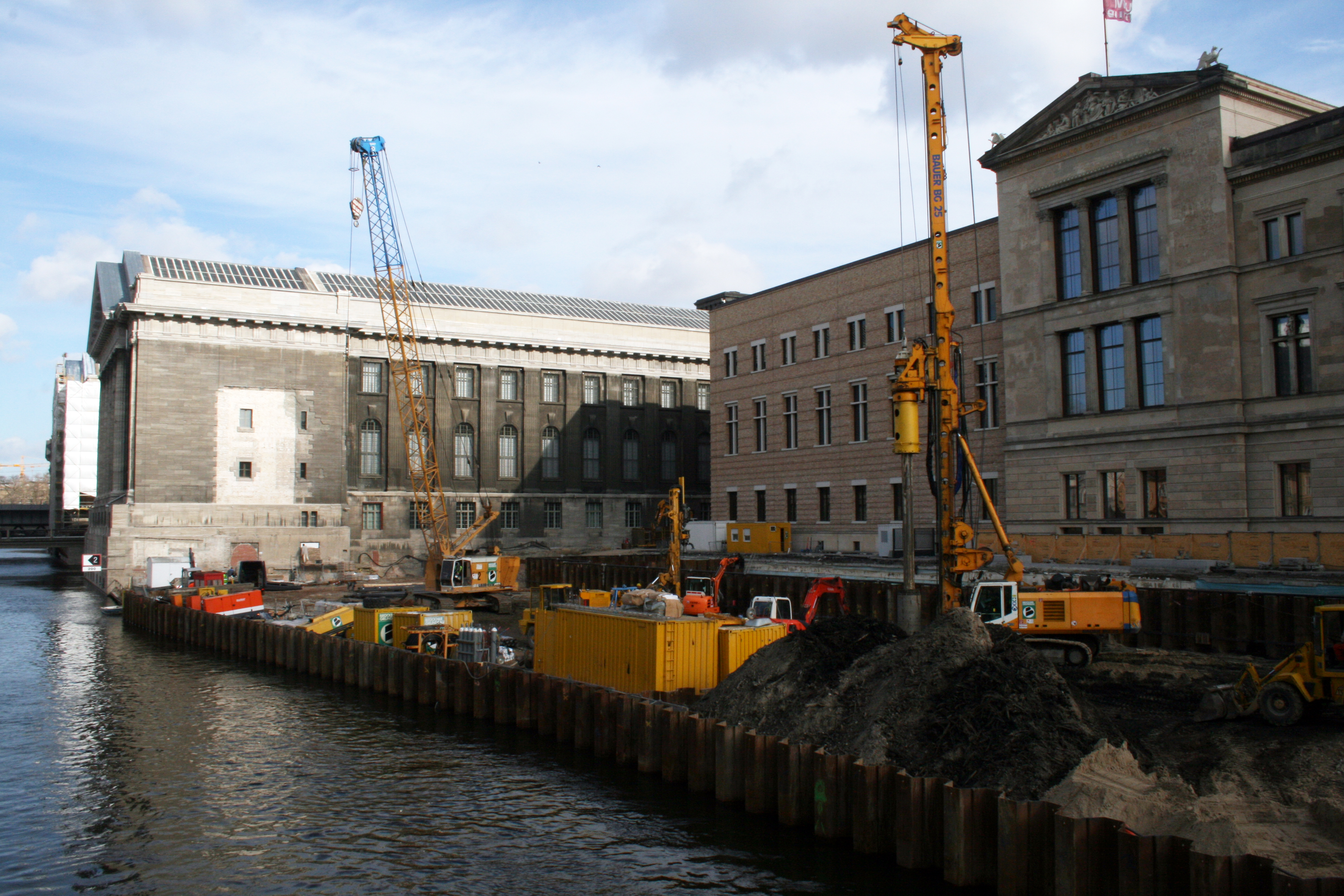 Western front of the Neues Museum with the foundation work of the James Simon-Galerie